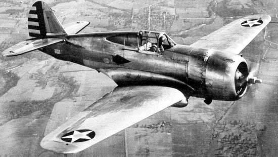 Vintage US military aircraft Curtiss P-36 of Wright Field